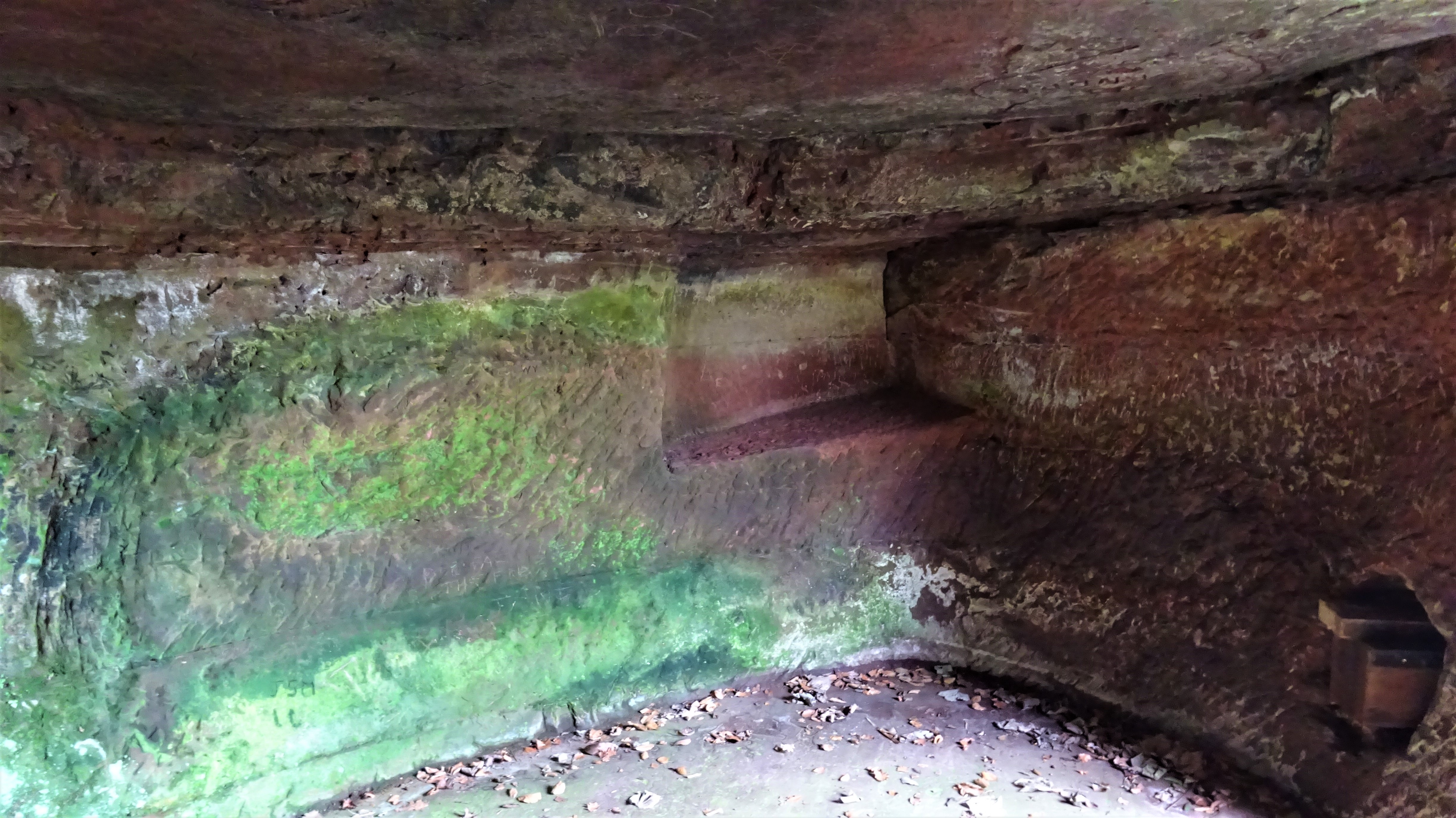 Bruce's Cave, alcove detail, Kirkpatrick-Fleming, Dumfries & Galloway, Scotland. Said to be where Bruce watched a spider struggling to make its web.